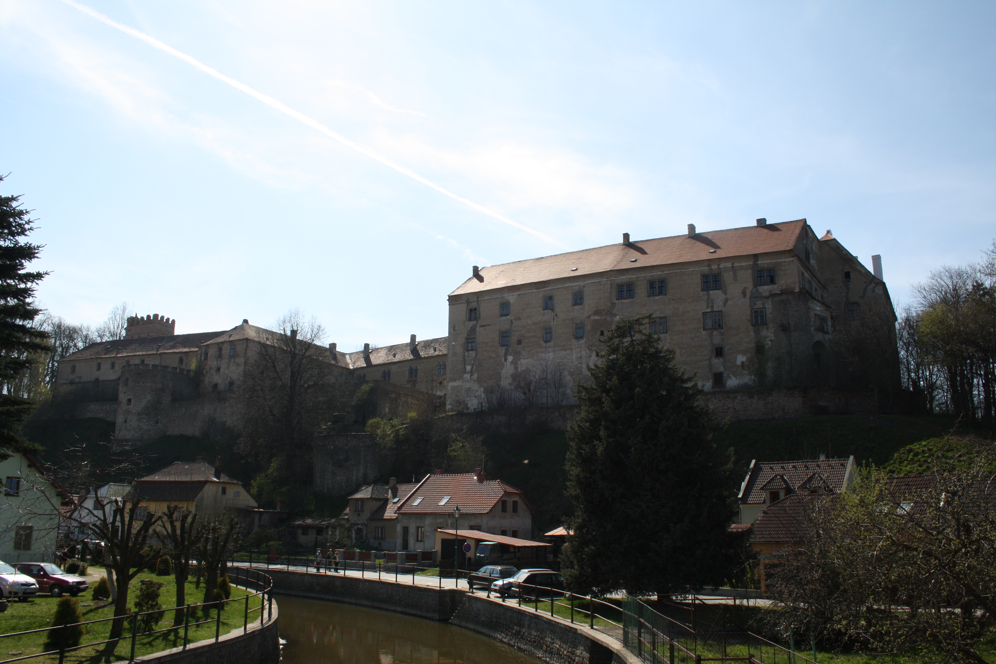 Brtnice castle overview and center of Brtnice.